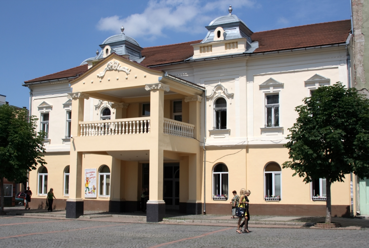 Drama Theatre in Mukachevo, Ukraine